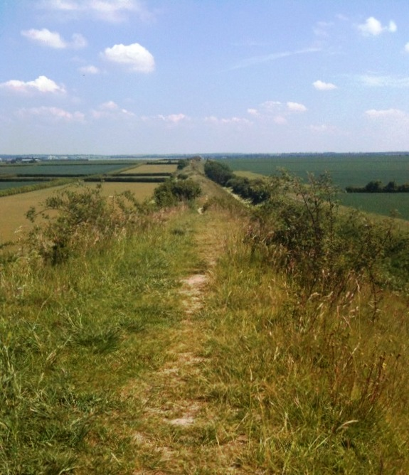 The photograph shows the the top of a section of the well-preserved defensive linear earthwork known as the Devil's Dyke (in Cambridgeshire, England), looking SE towards Newmarket.